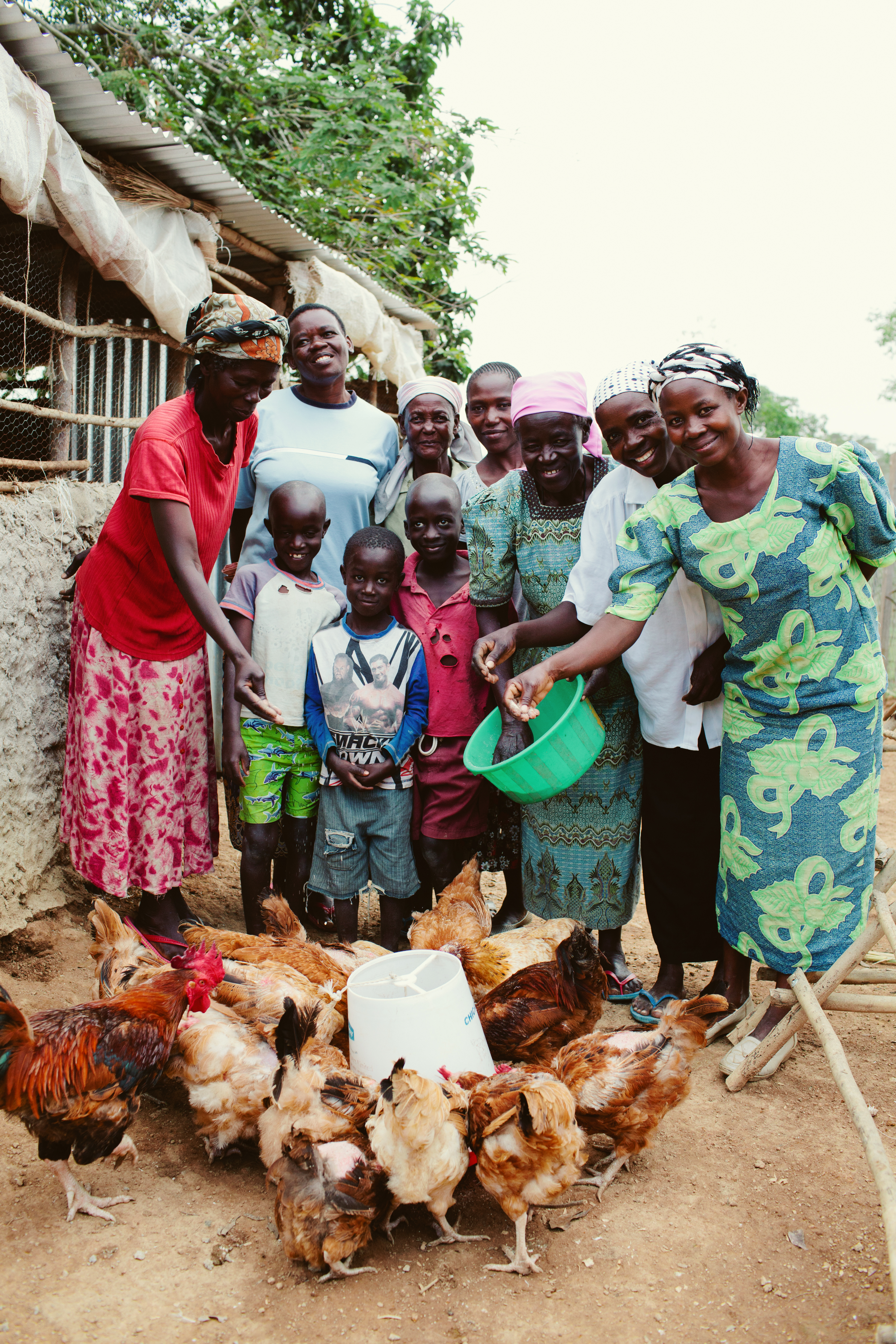 By raising a flock of chickens through a self-help group, these women have found a better way to earn an income and provide food for their families. Formed by Ugunja Community Resource Centre, these groups help once-struggling farmers turn a profit from their land. The AusAID-supported project is part of the TEAR Strengthening the Work of Smaller Civil Society Partners program in Western Kenya. Photo: Hailey Bartholomew / TEAR Australia